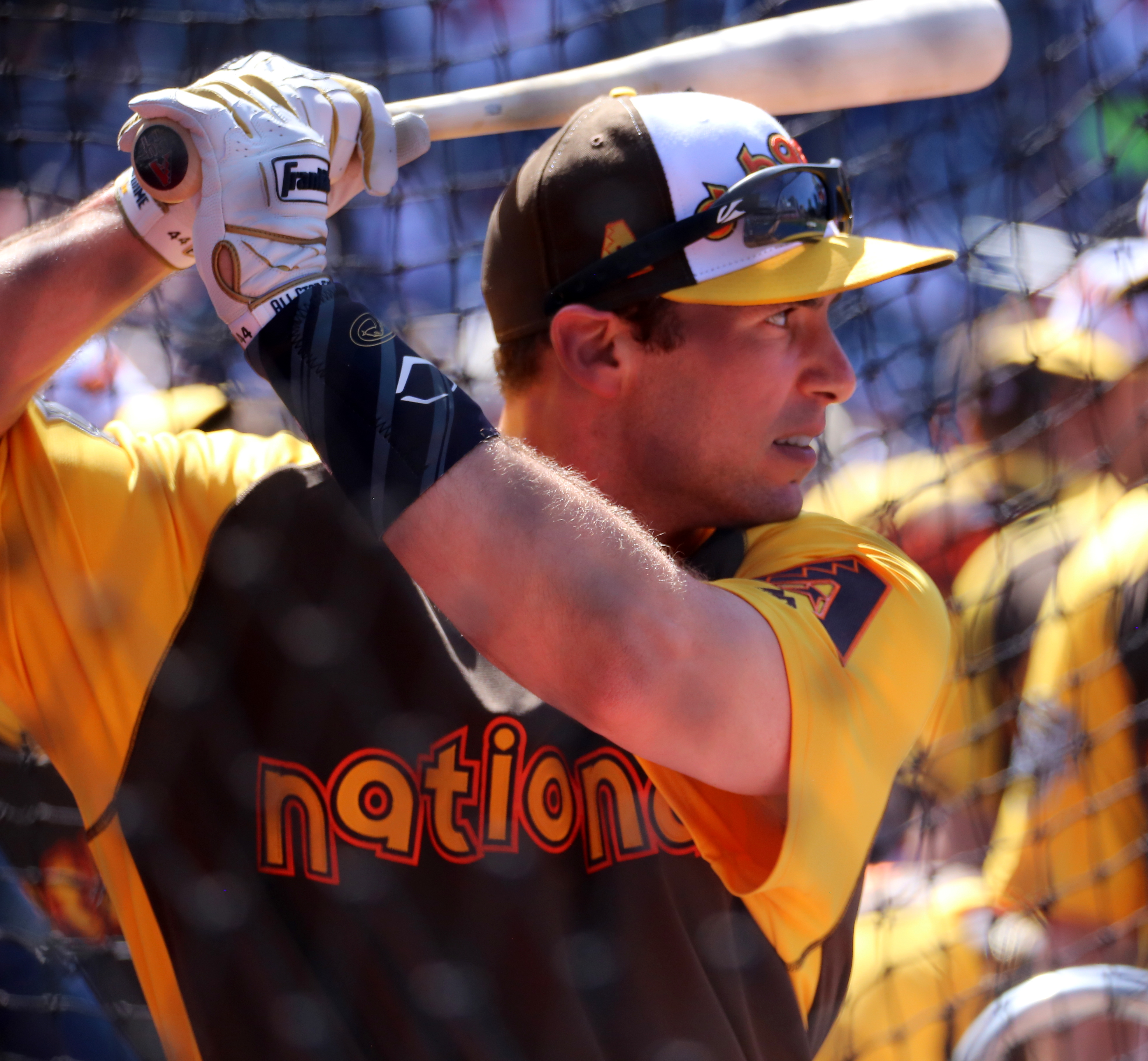 D-backs first baseman Paul Goldschmidt takes batting practice on Gatorade All-Star Workout Day.